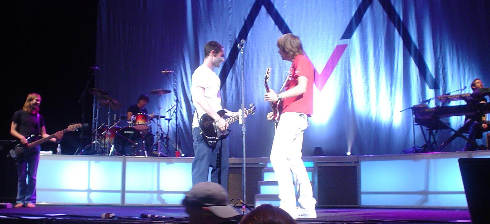 Maroon 5 in concert August 25, 2004